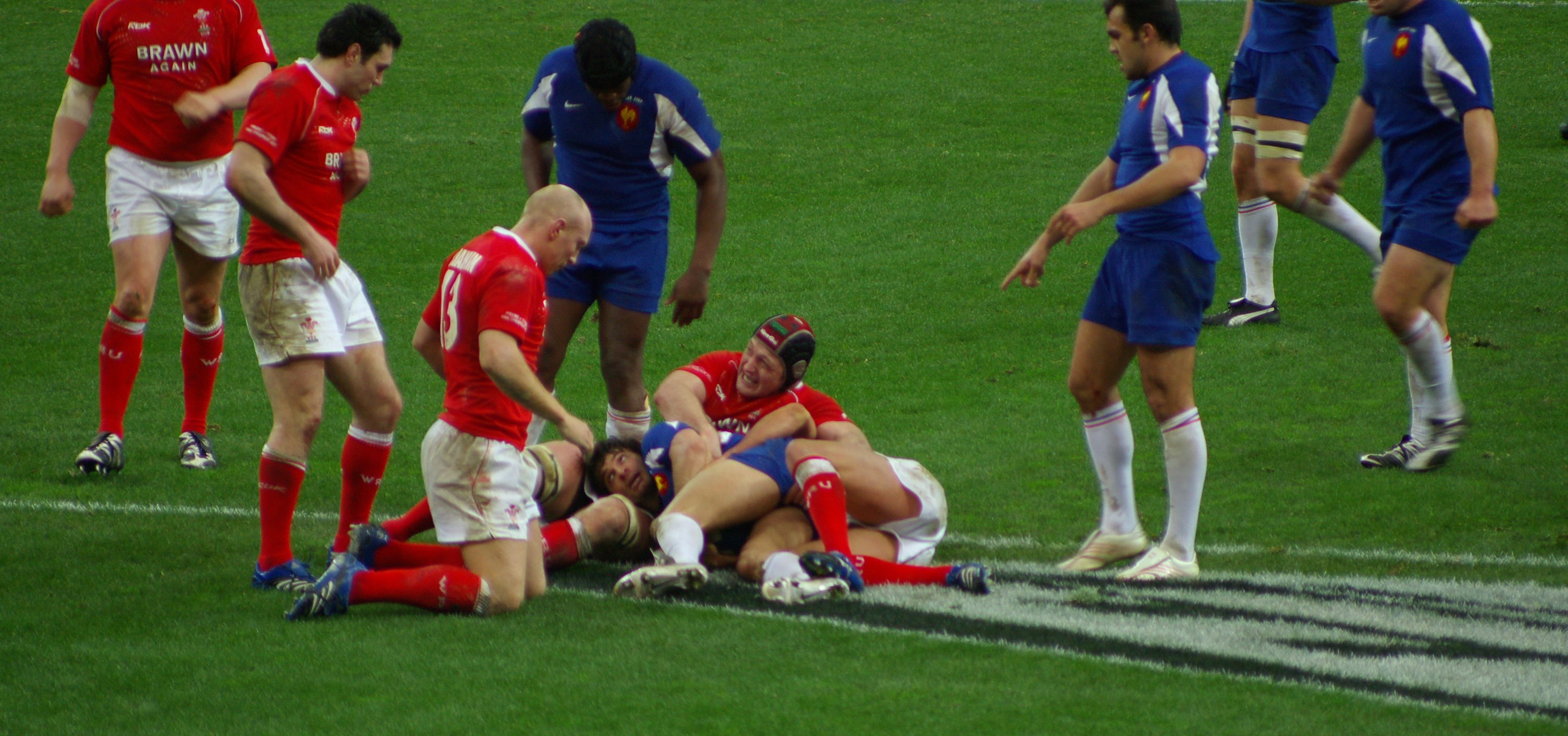 Pictures from the rugby game France vs Wales for 6 Nations 2007 which took place in Stade de France, Paris, 24/02/2007.